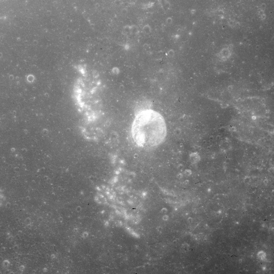 Wallach, on the moon. Altitude 119 km, sun elevation 80 deg.